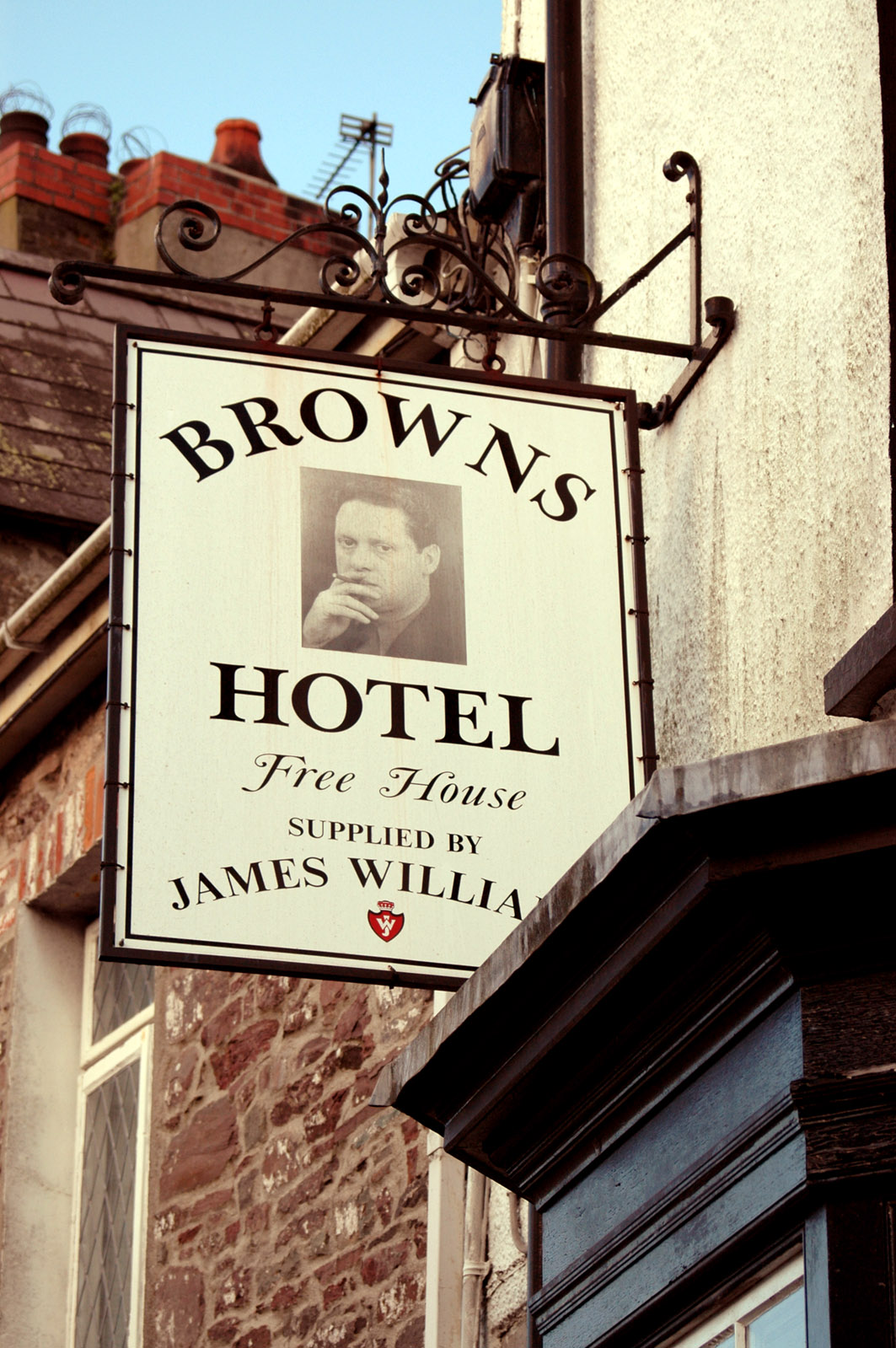 Brown's Hotel pub sign, depicting Dylan Thomas, in Laugharne, South Wales